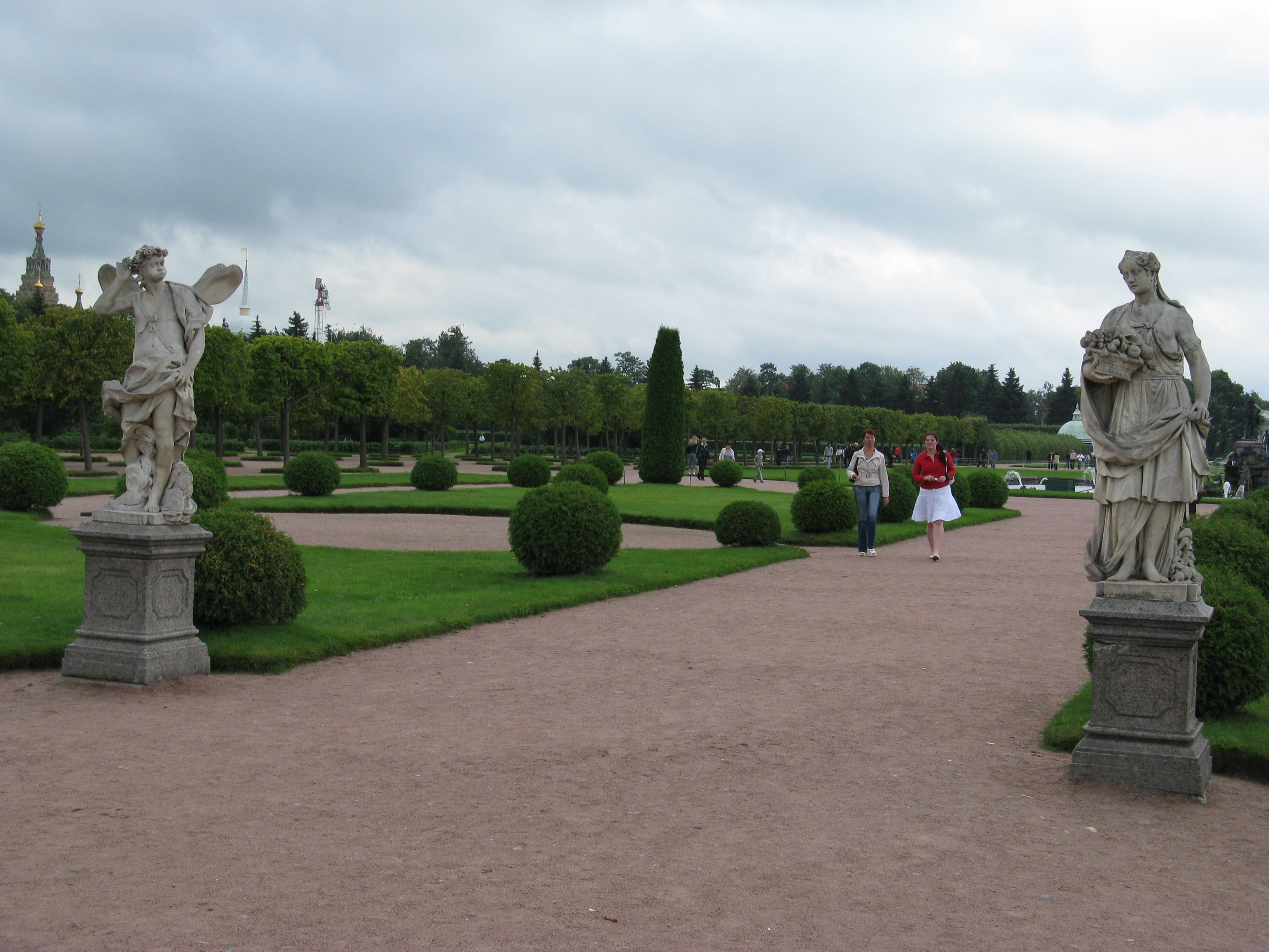 Zephyrus and Pomona by Antonio Bonazza at Upper Gardens of Peterhof.